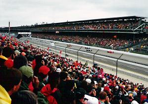 The start of the inaugural United States Grand Prix at Indianapolis, Indianapolis Motor Speedway, 2000